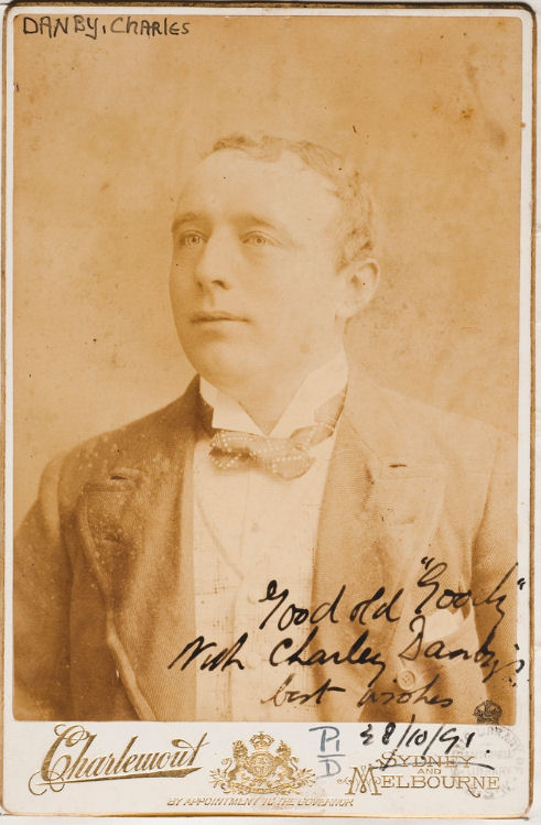 Charles Danby, English actor - portrait, 1891 / Charlemont, The Royal Arcade, Sydney, N.S.W. and at 114 Elizabeth Street, Melbourne Charlemont & Co. 1891 P1/